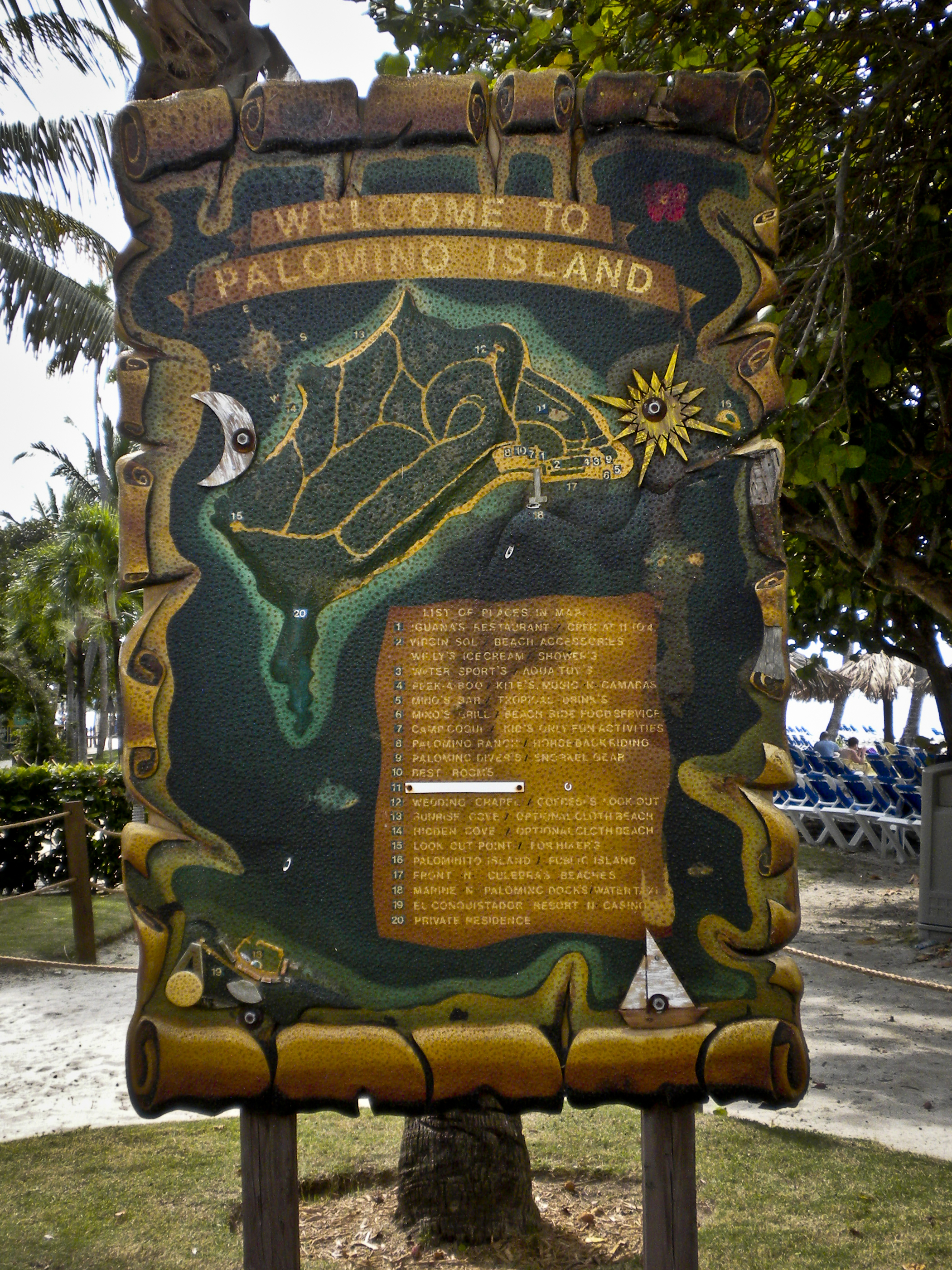 Welcome to Palomino Island sign in Cabezas, Fajardo, Puerto Rico